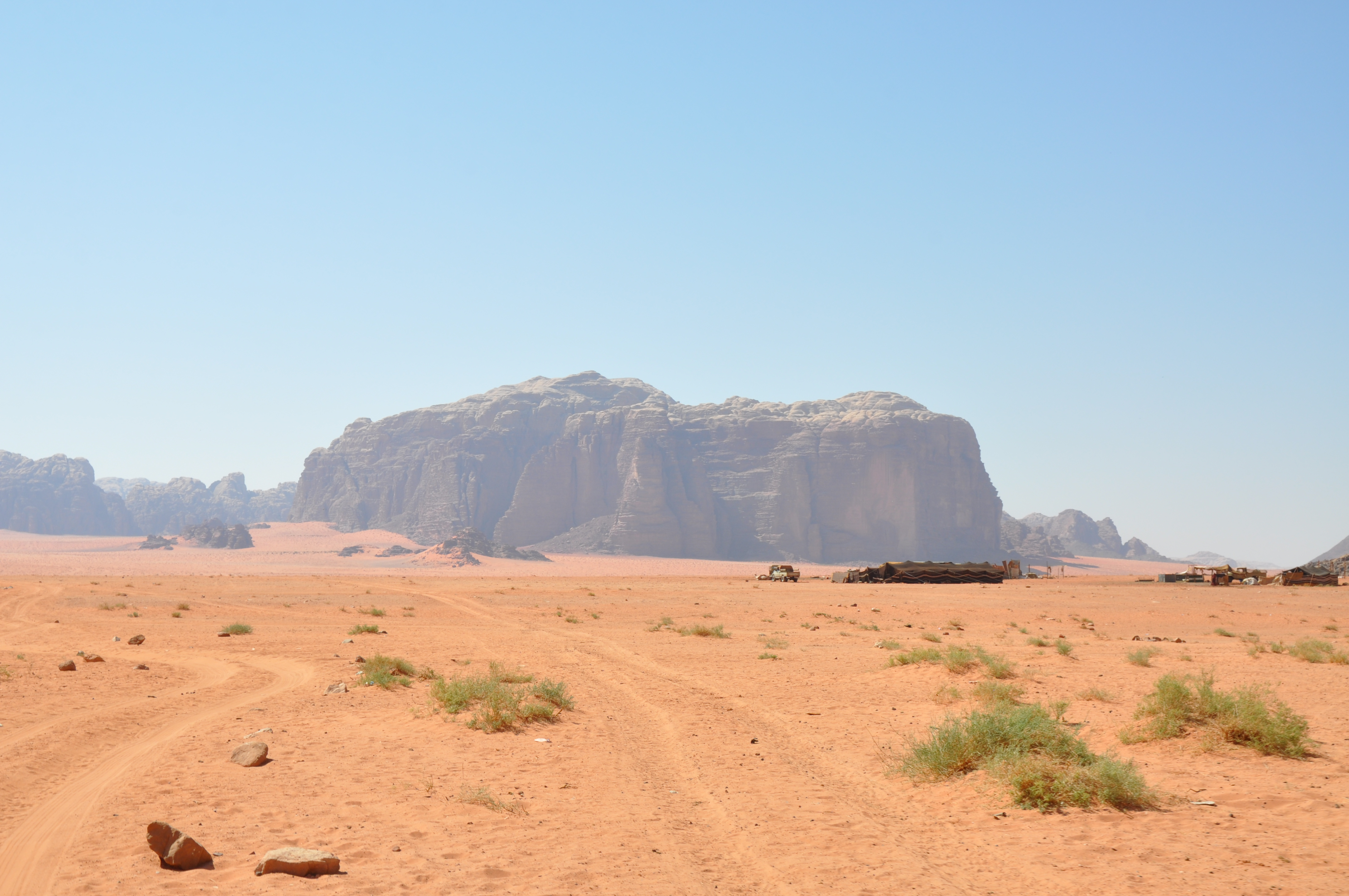 Wadi Rum also known as The Valley of the Moon is a valley cut into the sandstone and granite rock in southern Jordan 60 km (37 mi) to the east of Aqaba; it is the largest wadi in Jordan. The name Rum most likely comes from an Aramaic root meaning 'high' or 'elevated'. To reflect its proper Arabic pronunciation, archaeologists transcribe it as Wadi Ramm History Wadi Rum has been inhabited by many human cultures since prehistoric times, with many cultures–including the Nabateans–leaving their mark in the form of rock paintings, graffiti, and temples. In the West, Wadi Rum may be best known for its connection with British officer T. E. Lawrence, who passed through several times during the Arab Revolt of 1917–18. In the 1980s one of the rock formations in Wadi Rum was named "The Seven Pillars of Wisdom" after Lawrence's book penned in the aftermath of the war, though the 'Seven Pillars' referred to in the book have no connection with Rum. Geography The area is centered on the main valley of Wadi Rum. The highest elevation Jordan is Mount Um Dami at 1,840 m (6,040 ft) high, located 30 kilometers to the south of Wadi Rum village. It was first located by Difallah Ateeg, a Zalabia Bedouin from Rum. On a clear day, it is possible to see the Red Sea and the Saudi border from the top. Jabal Rum (1,734 metres (5,689 ft) above sea level) is the second highest peak in Jordan and the highest peak in the central Rum, rising directly above Rum valley opposite Jebel um Ishrin, which is possibly one metre lower. Khaz'ali Canyon in Wadi Rum is the site of petroglyphs etched into the cave walls depicting humans and antelopes dating back to the Thamudic times. The village of Wadi Rum itself consists of several hundred Bedouin inhabitants with their goat-hair tents and concrete houses and also their four wheel vehicles, one school for boys and one for girls, a few shops, and the headquarters of the Desert Patrol.